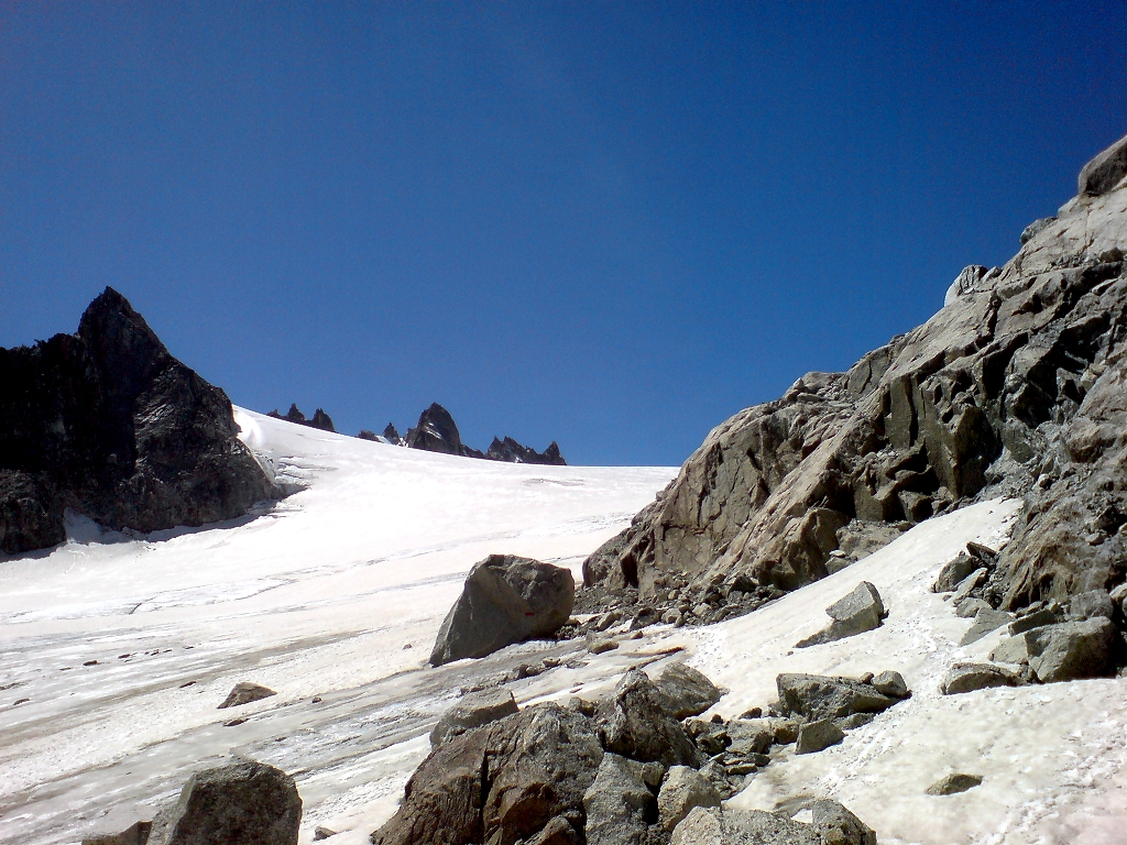 Glacier d'Orny and Glacier du Trient (above)